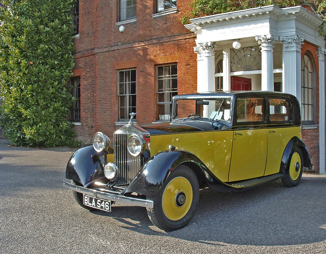 Yellow Rolls Royce, Capel Manor, Bulls Cross, Enfield